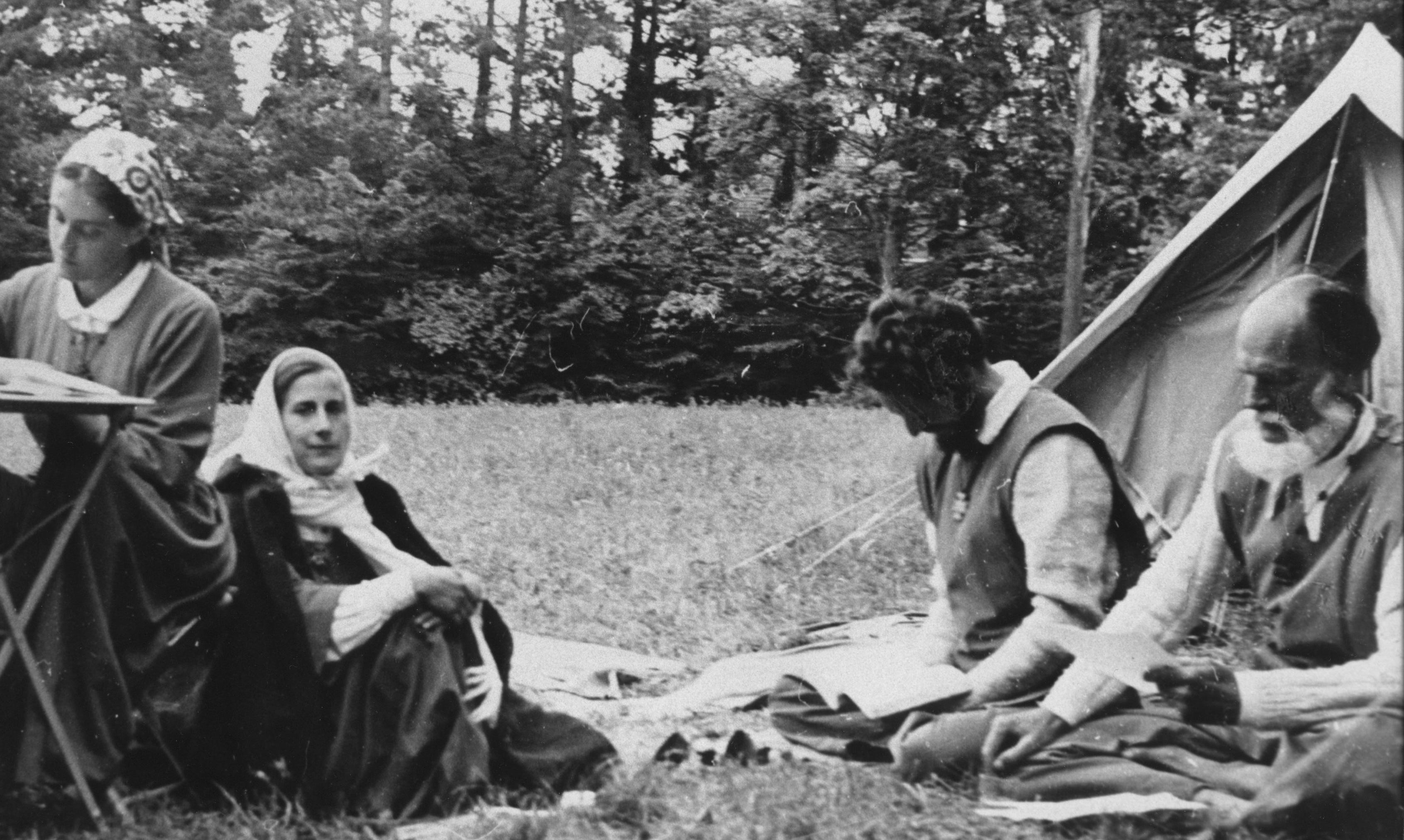 Lanza del Vasto and the members of the Community.